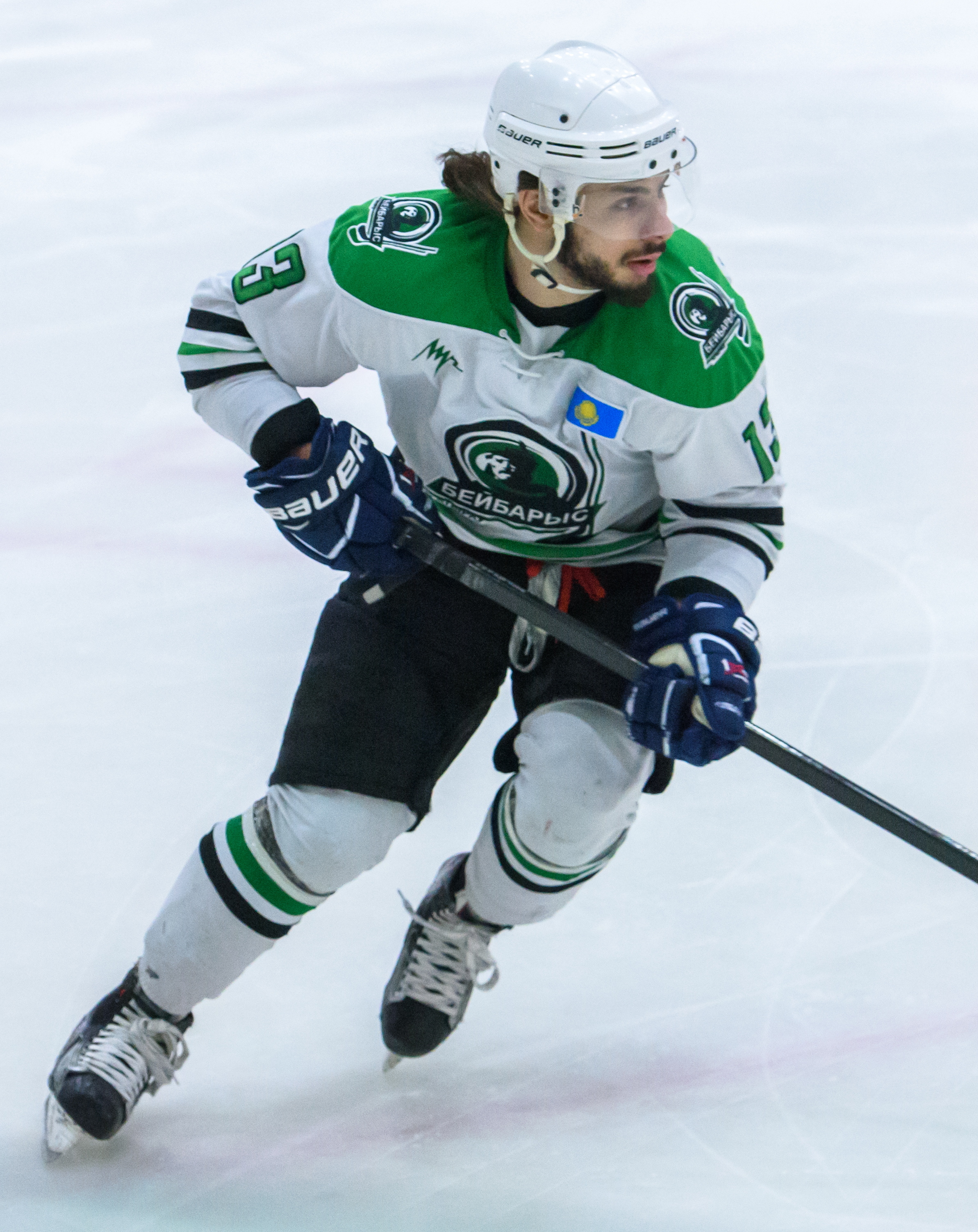 the Photographer sent the picture via email so It can be uploaded anywhere.